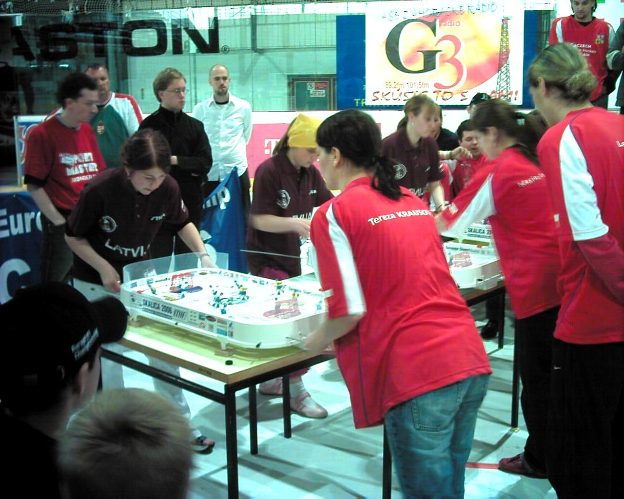 Picture from European Championship in table hockey in Skalica, Slovakia. 4th June 2006. Ladies team final, second round. Latvia (to the left) vs. Czech Republic. From the left: D. Ozoliņa, LAT - T. Krausová, CZE 2-4 I. Zuce-Tenča, LAT - M. Vargová, CZE 0-1 G. Paķe, LAT - M. Pilarová, CZE (not visible) 5-3